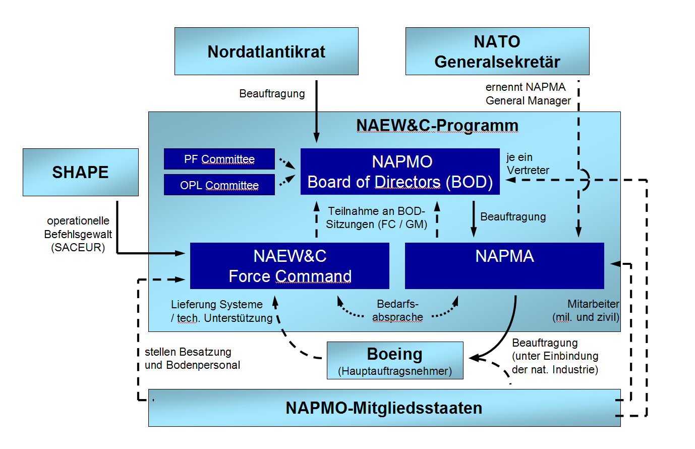 Organisation of the NATO AEW&C Programme